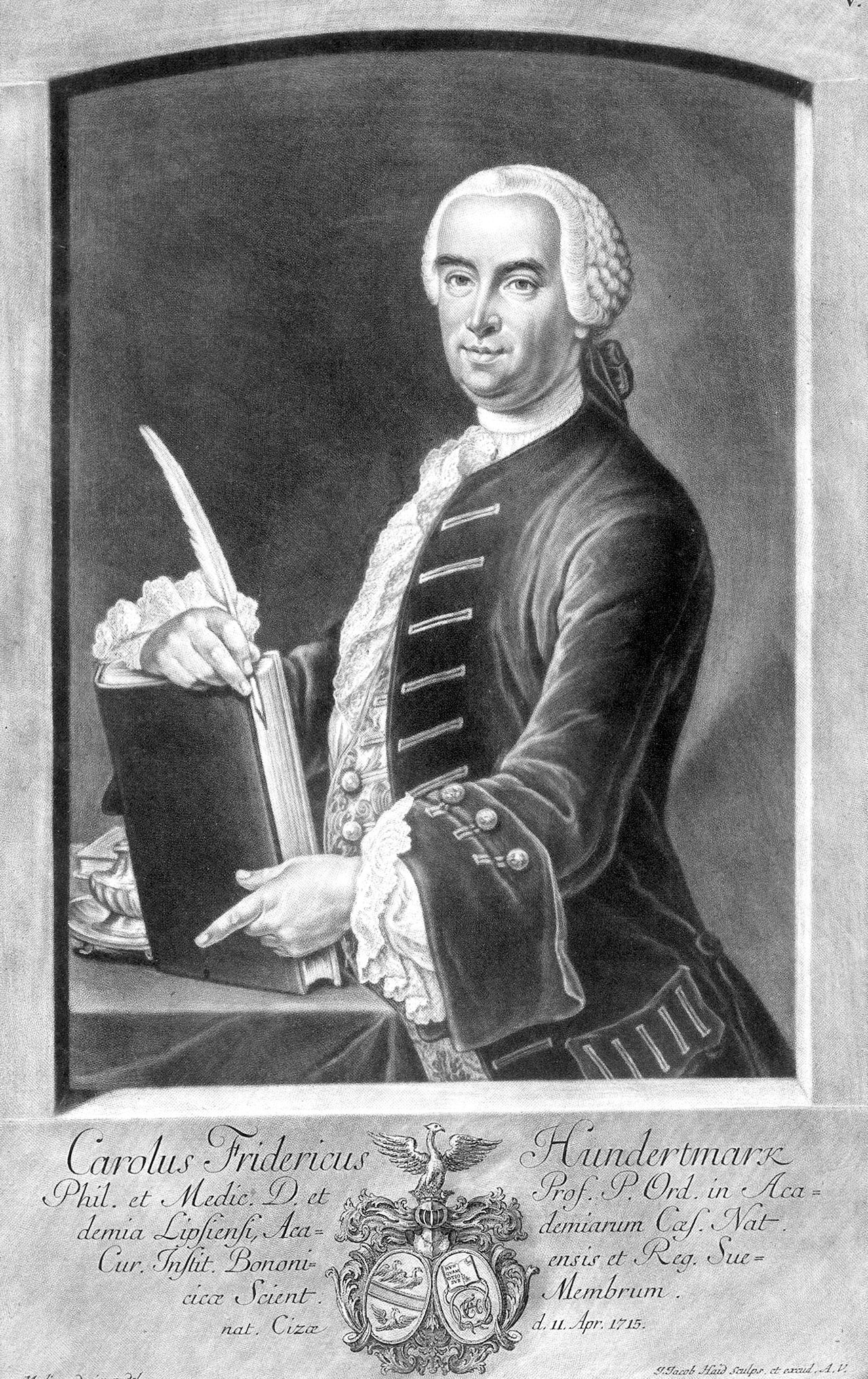 Karl Friedrich Hundertmark (1715-1762) Physician from Germany